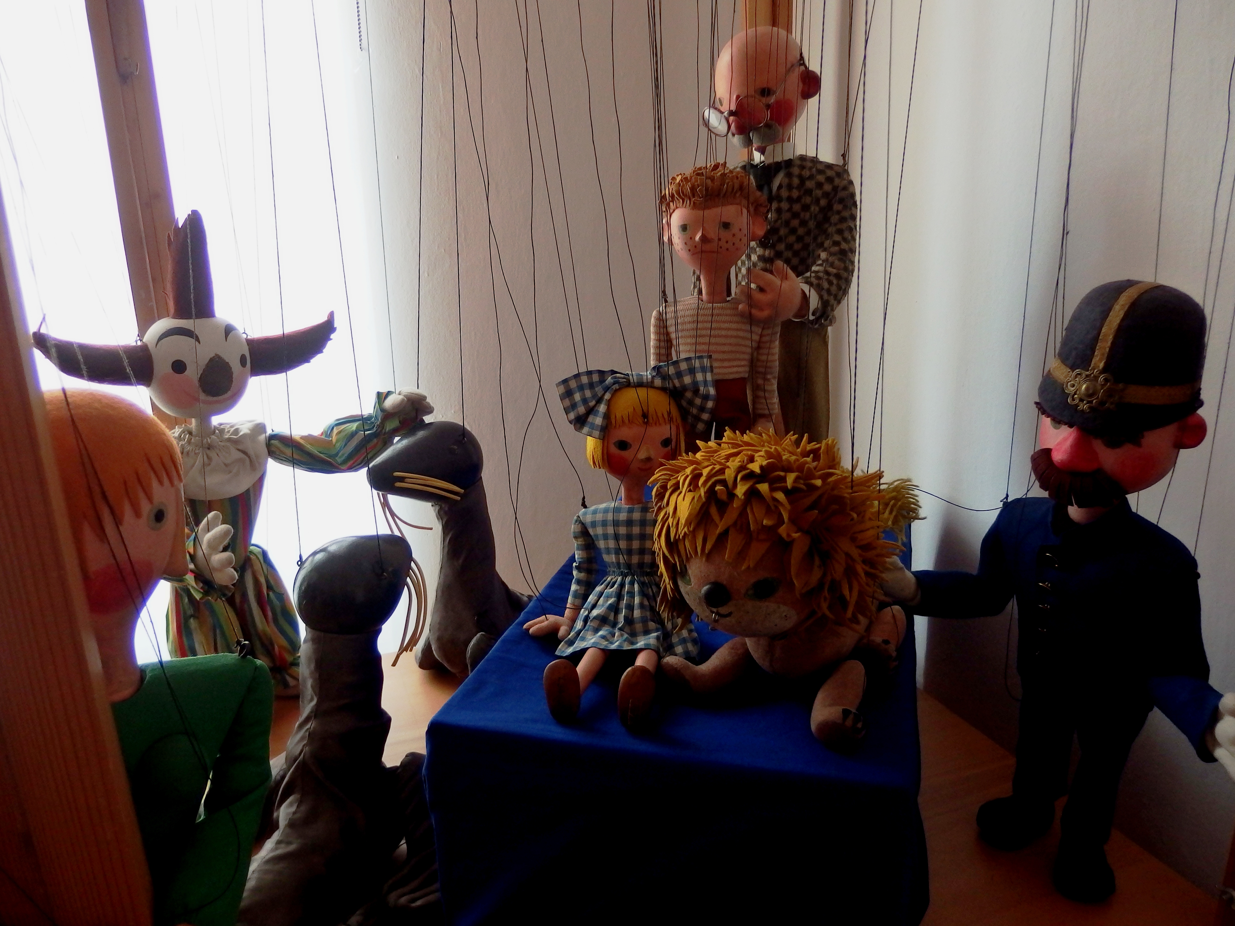 Chrudim, Czech Republic. Muzeum loutkářských kultur (Puppetry museum).